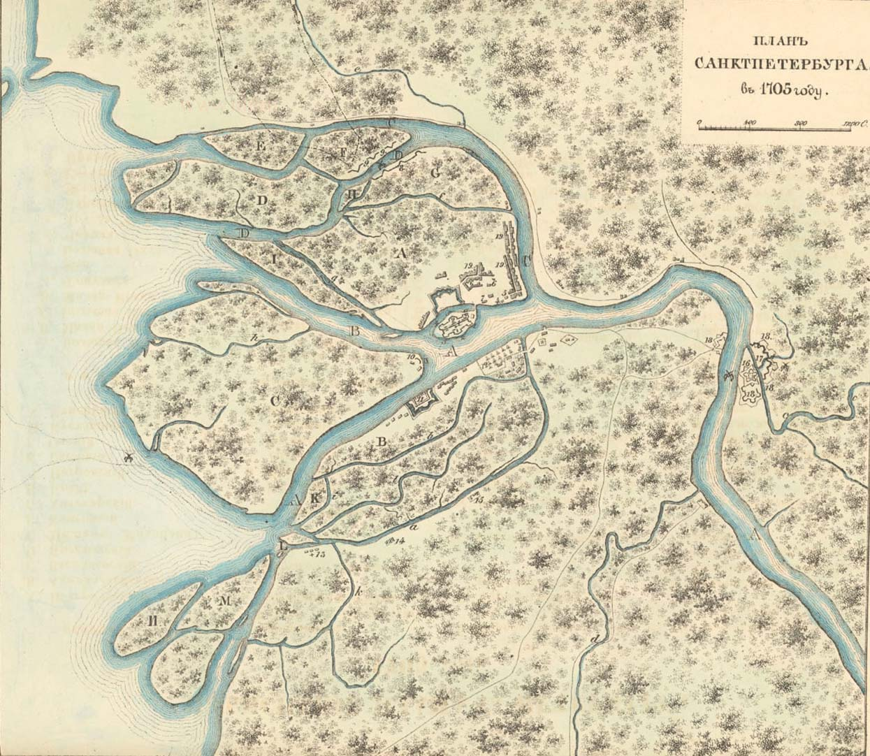 Map of Saint-Petersburg, 1705. Historical reconstruction of 1853